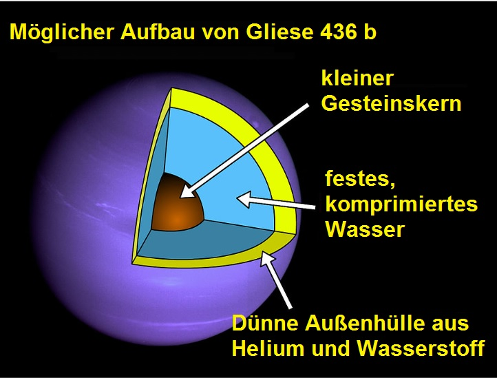 Gliese 436 b interior structure by Dr. Jason Wright.